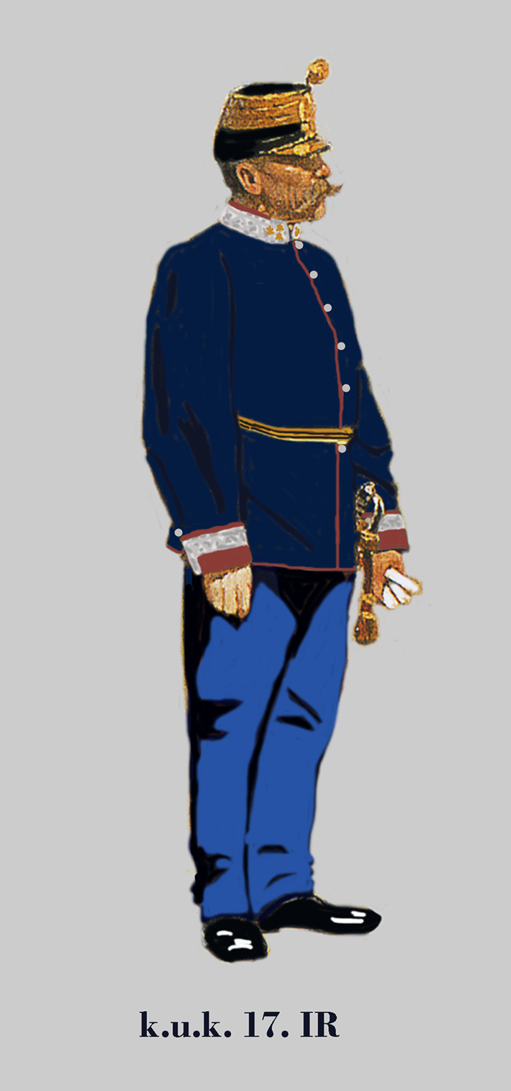 Colonel of the Austria-Hungarian (k.u.k.). 17th german Infantry Regiment in Parade dress. 1914